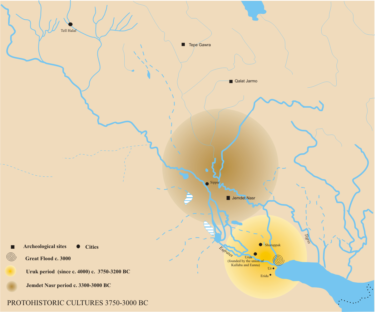 Periods of Uruk and Jemdet Nasr